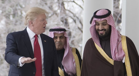 President Donald Trump walks with the Saudi Arabia’s Deputy Crown Prince Mohammed bin Salman bin Abdulaziz Al Saud, Tuesday, March 14, 2017, along the Colonnade outside the Oval Office of the White House in Washington, D.C. (Official White House Photo by Shealah Craighead)